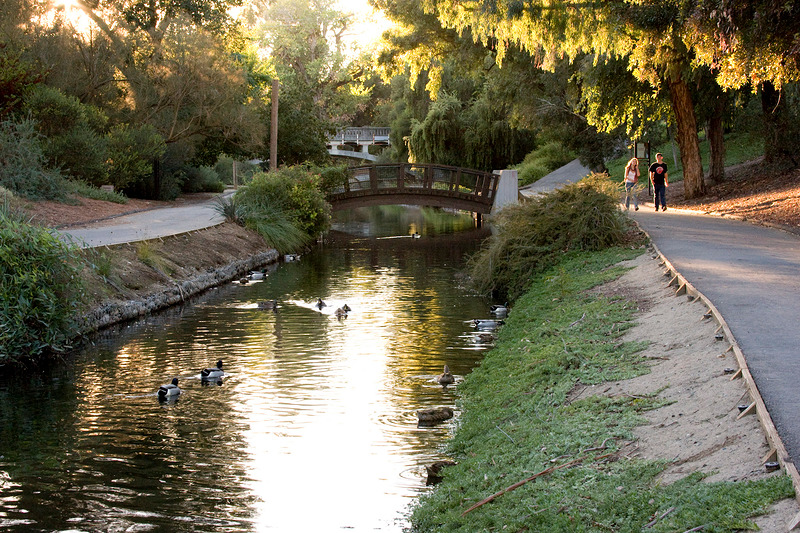 Davis, California